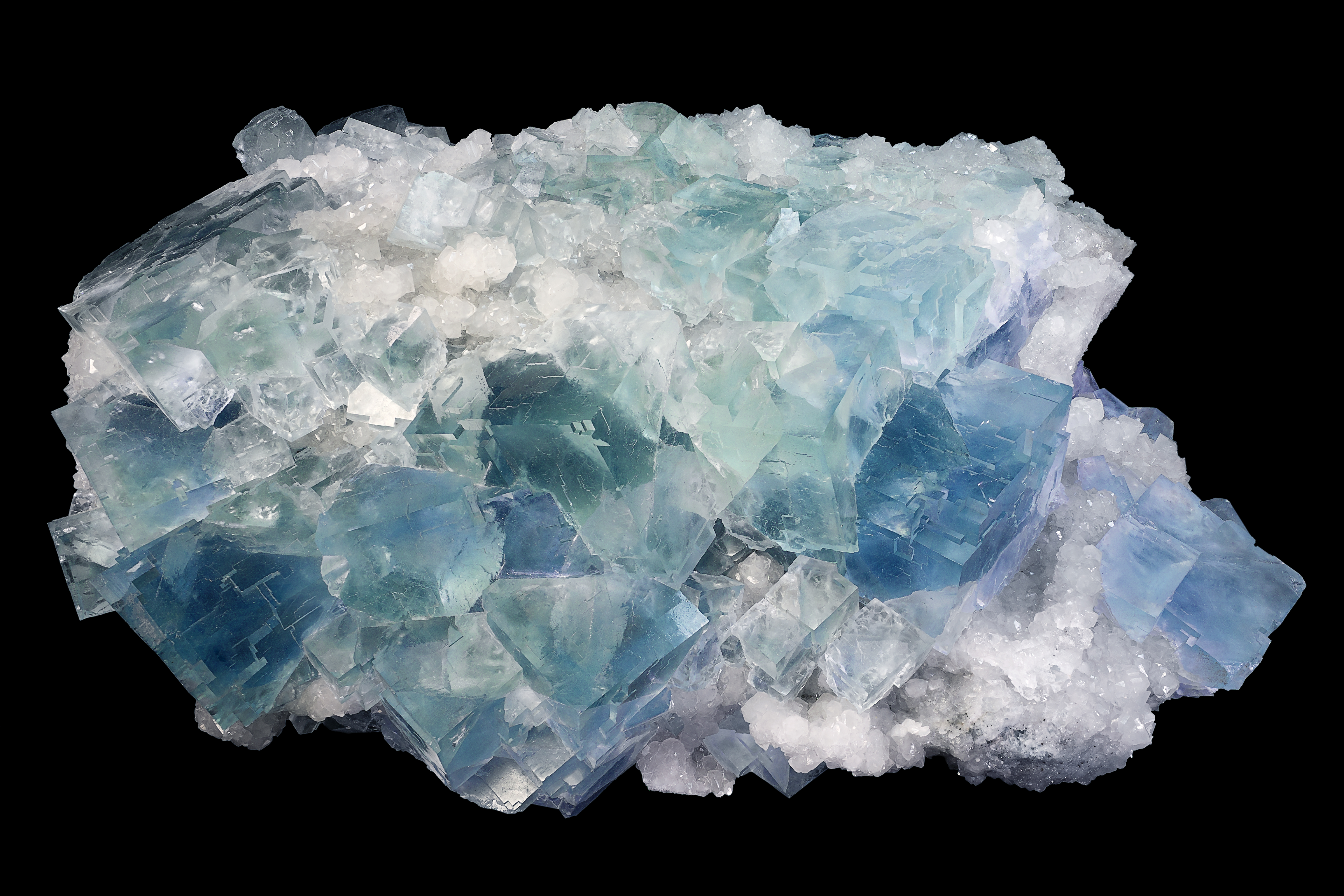 Fluorite, Quartz Locality: Le Burg Mine (Le Burc Mine), Alban and Le Fraysse, Tarn, Midi-Pyrénées, France Size: 40 x 27 x 14 cm